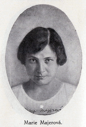 Marie Majerová (1882-1967), czech writer